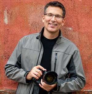 Portrait of photographer Andrew Prokos